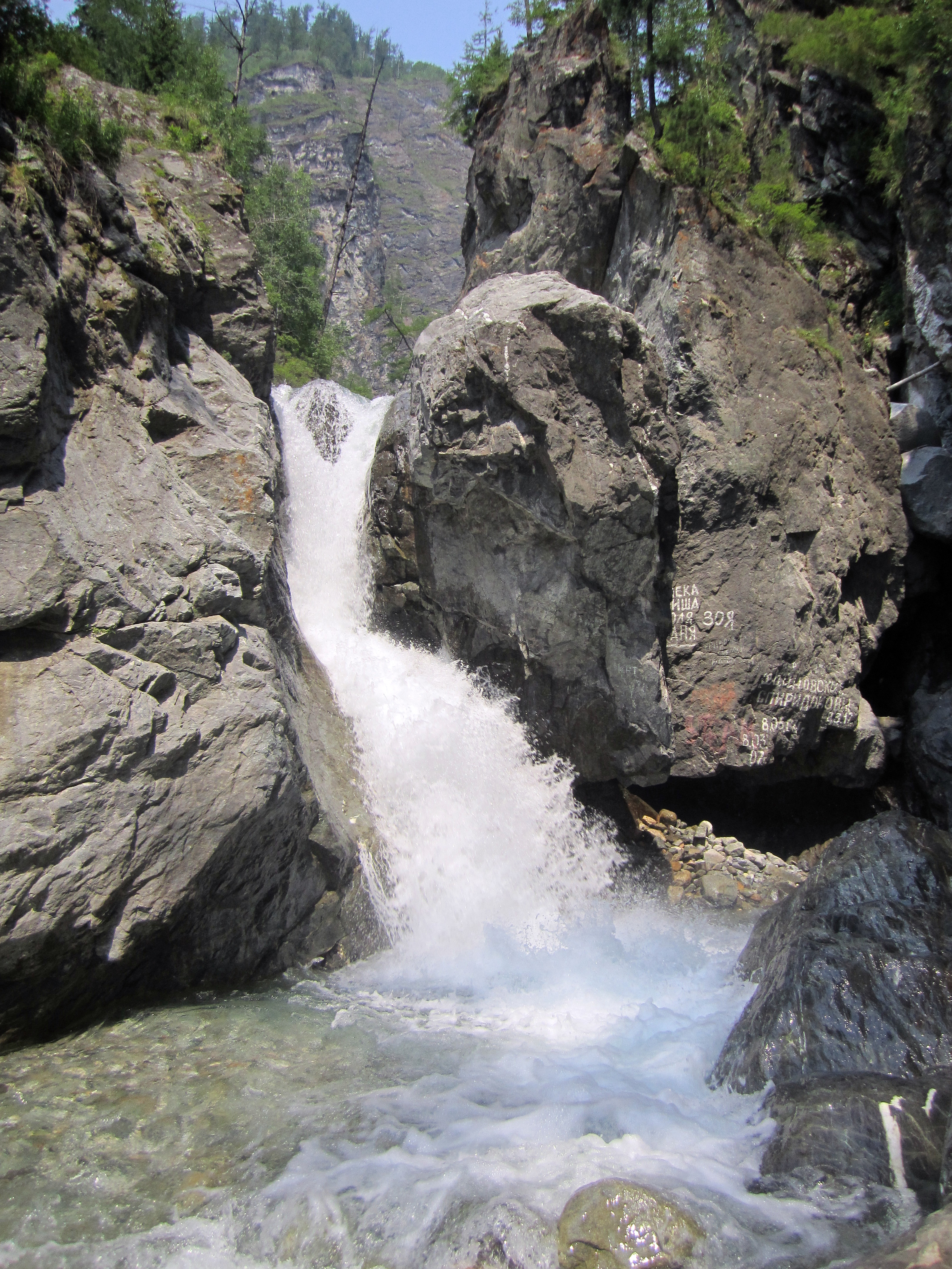 First (lowermost) waterfall on the Kyngarga river, 1.5 km from the Arshan in Buryatia.